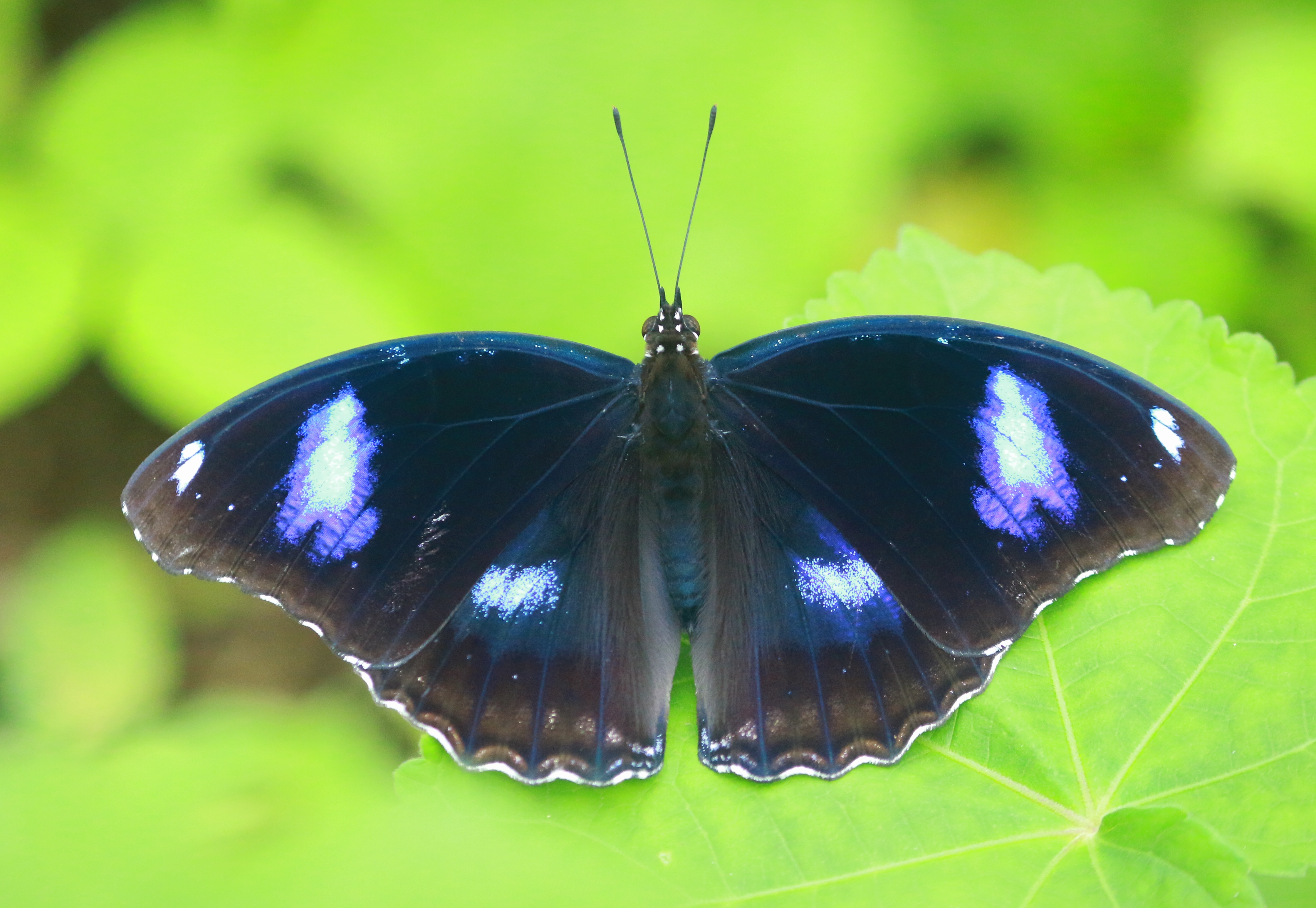 Hypolimnas bolina, great eggfly